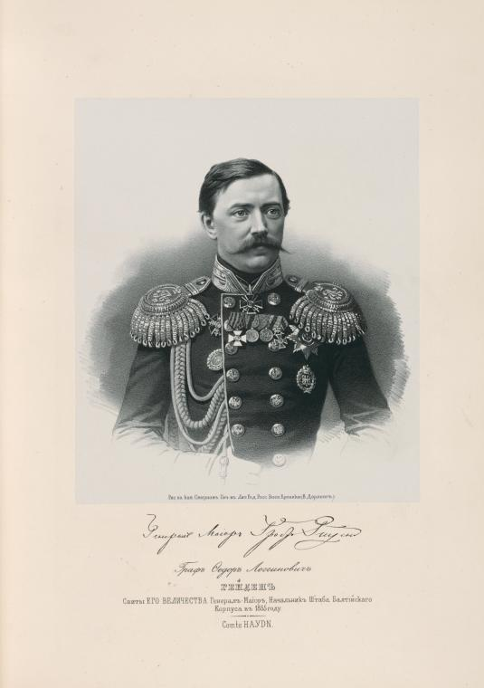 General of Infantry of the Russian Empire Fedor Heiden.